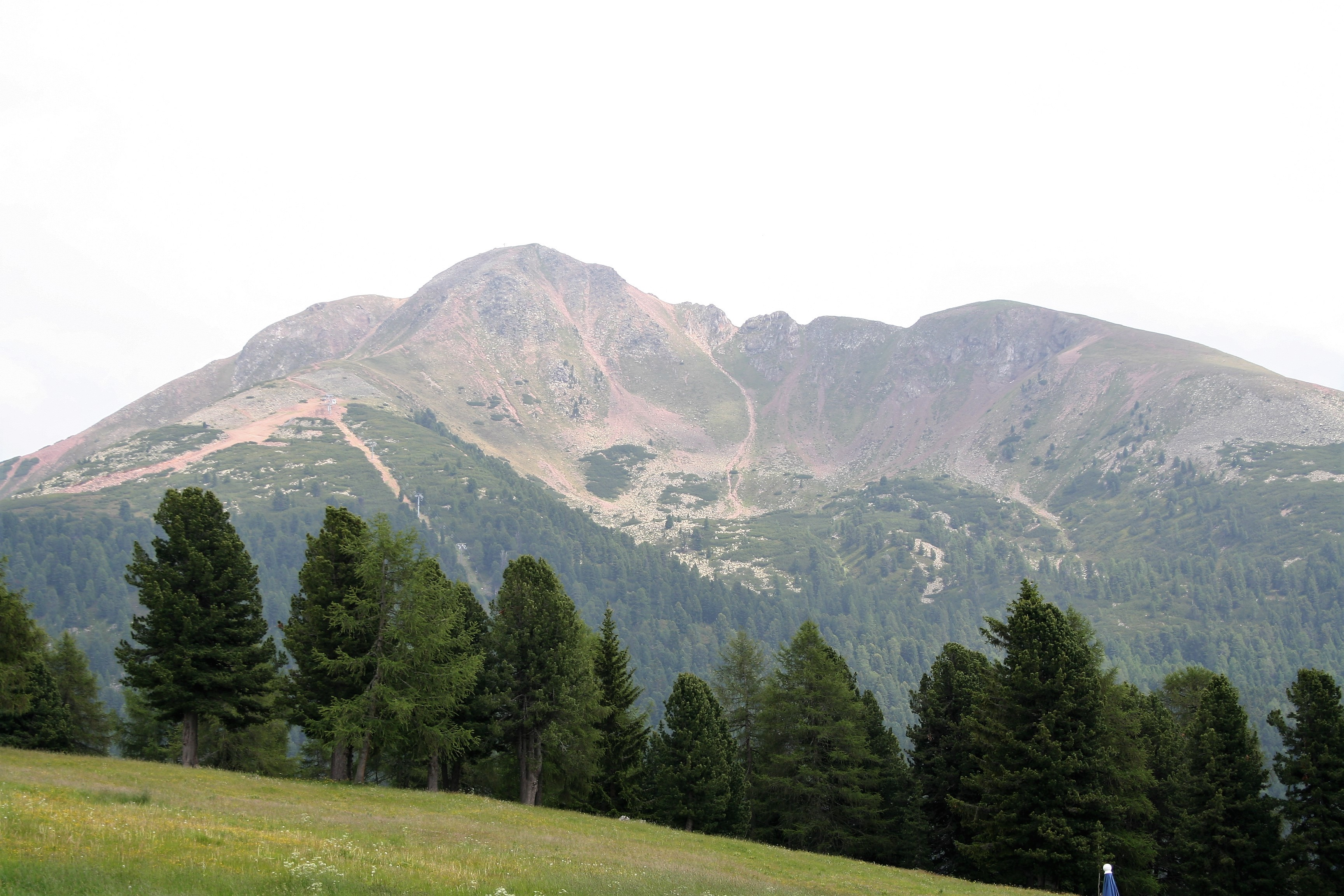 Corno Nero (Schwarzhorn) mountain in Aldino, Italy